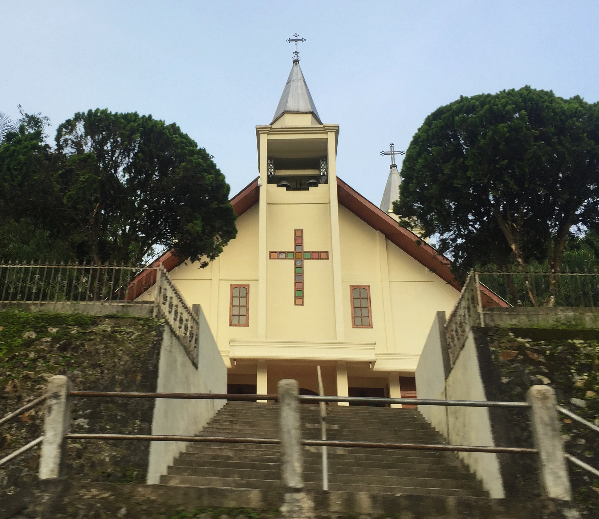 HKBP Parbaju, Church in Parbaju, Tarutung, North Tapanuli